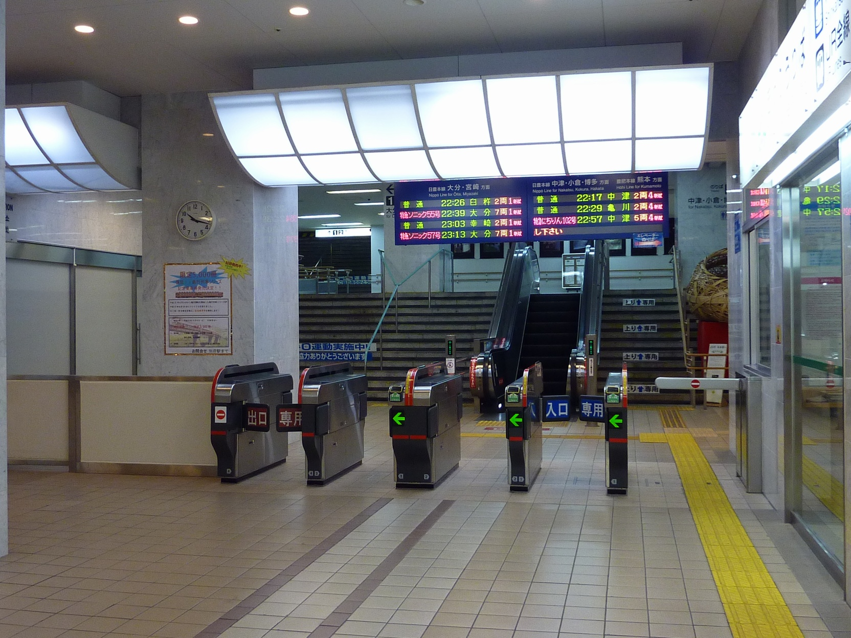 The Ticket Gate at JR Kyushu Beppu Station